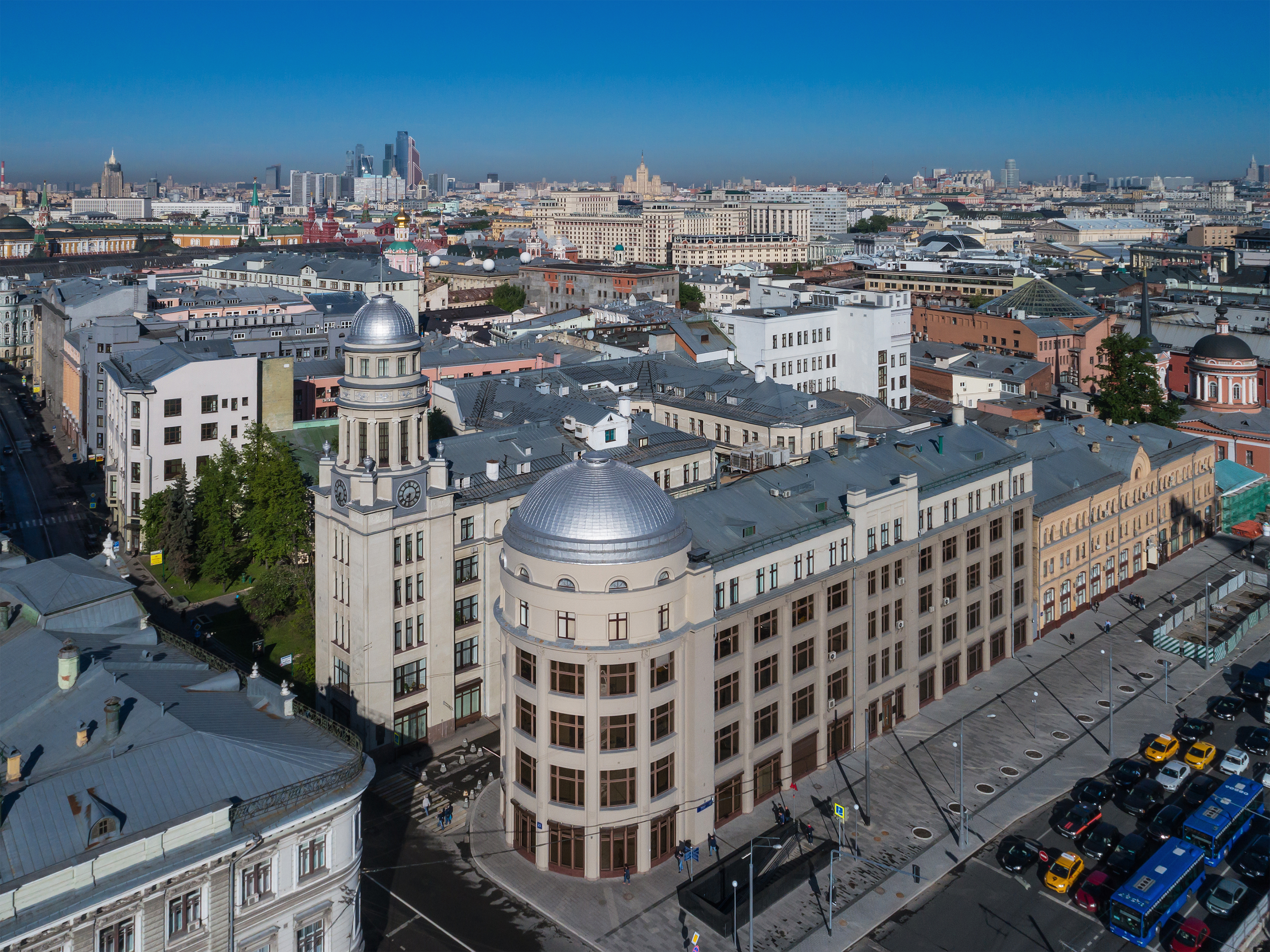 Aerial photo near Red Square and Kitay-Gorod in Moscow (Russia).